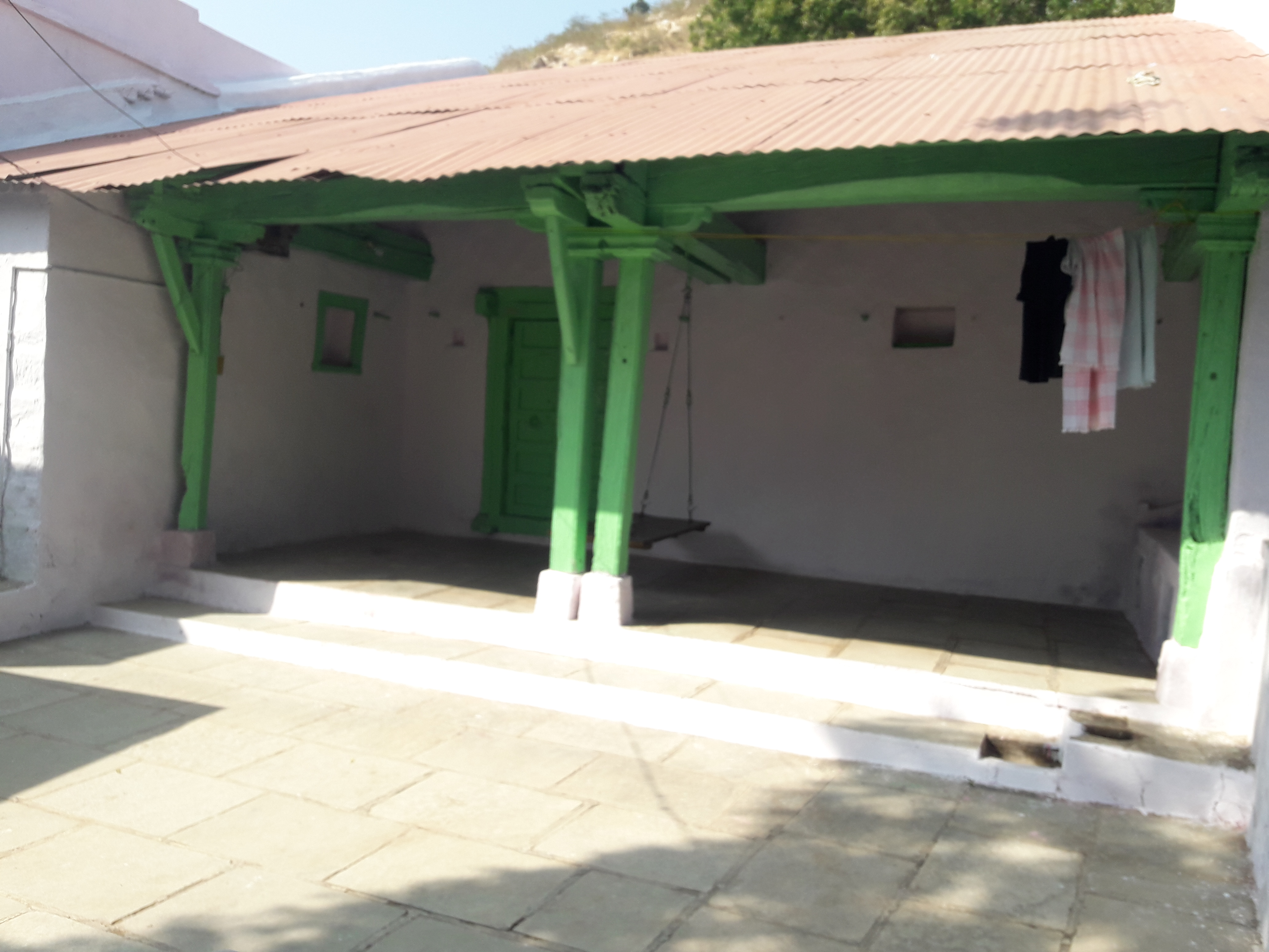 Birth place of Gujarati writer Umashankar Joshi in Bamna, a village in Bhiloda taluka (now in Aravalli district)